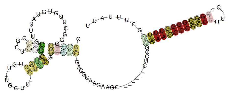 Putative structure of the Pseudomonas_rnk-leader, obtained by RNAalifold